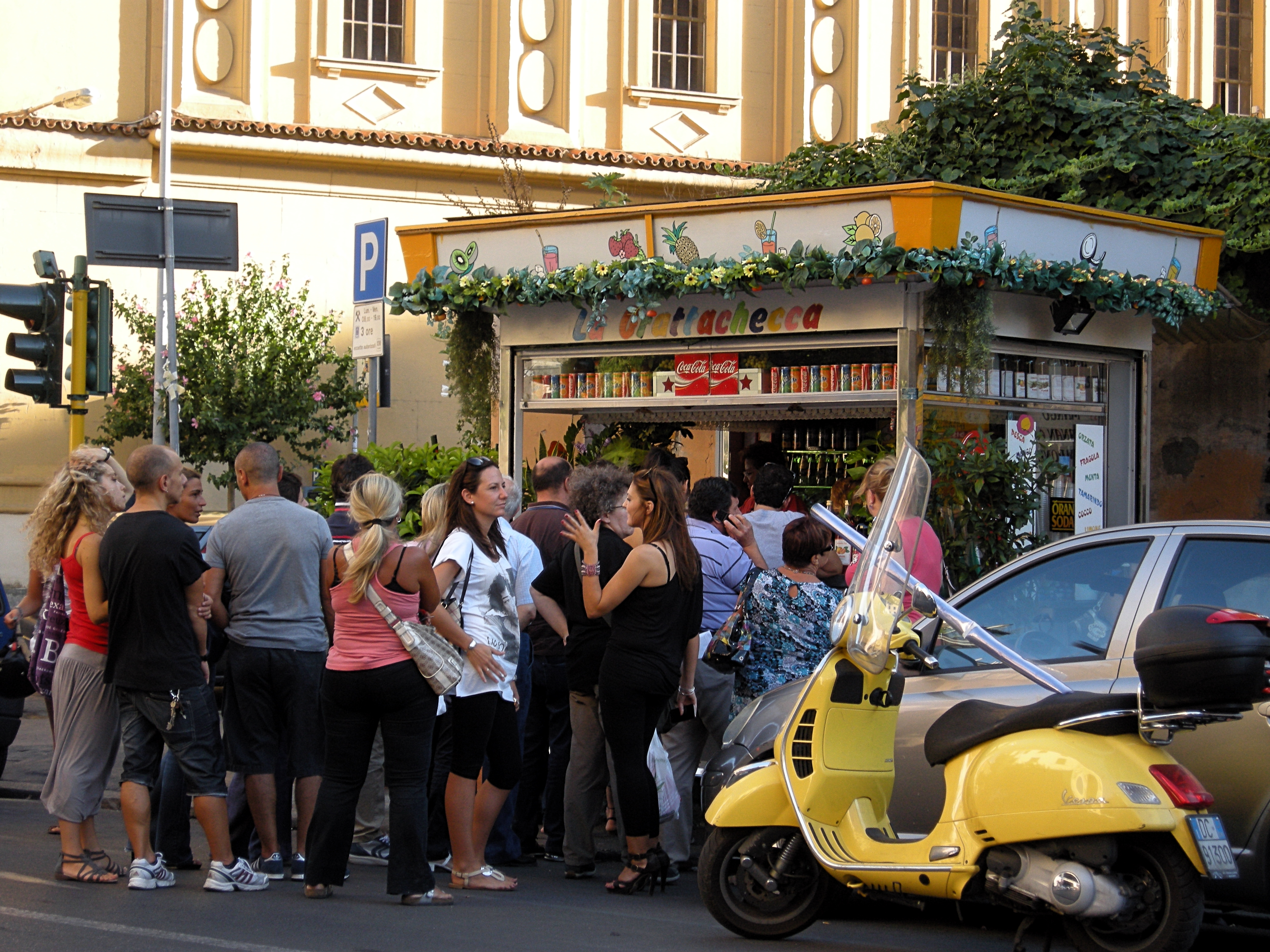 La Grattachecca di Sora Maria on Via Trionfale, one of the most famous “grattachecca ” kiosks in Rome - Italy